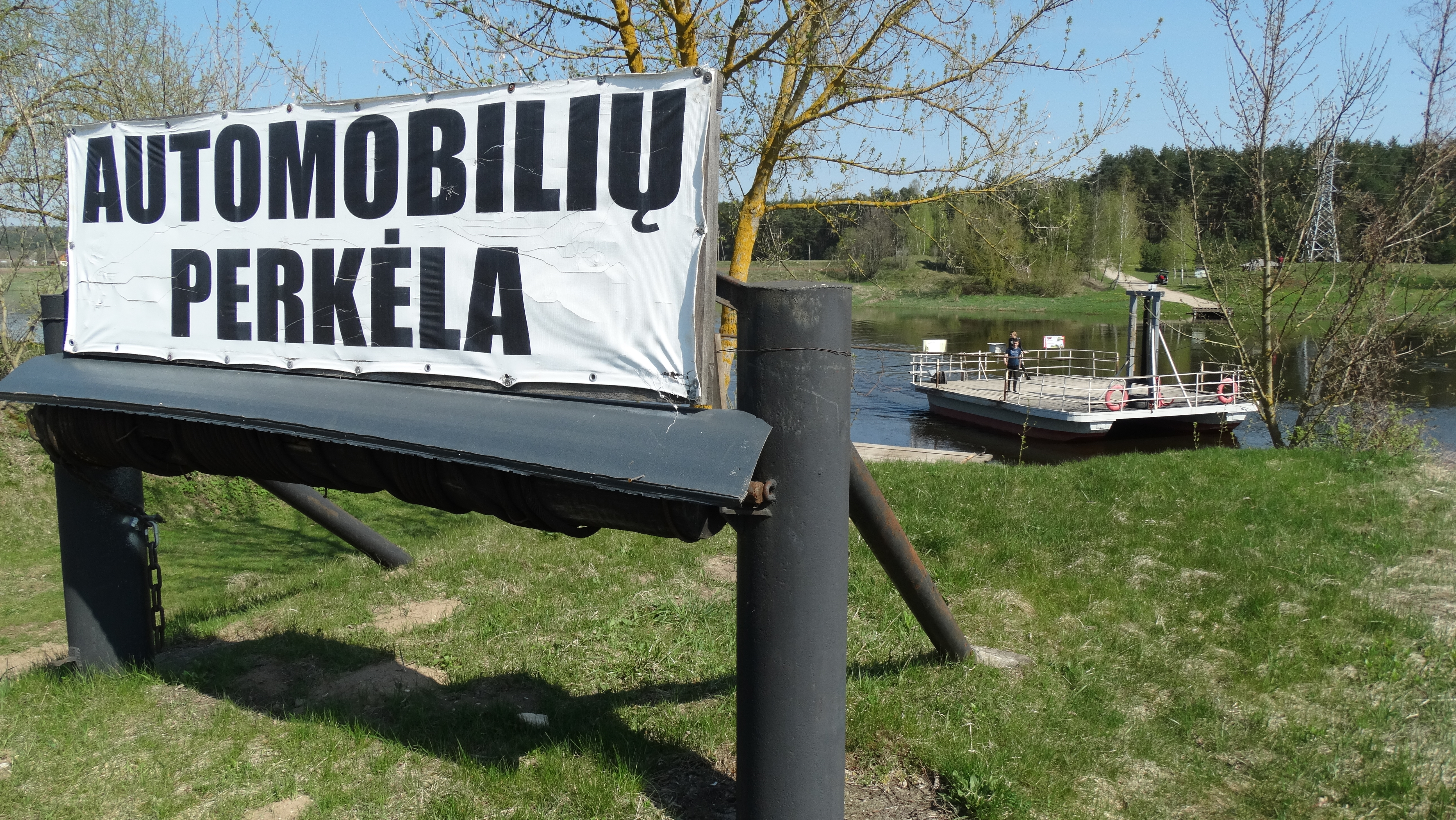 Neris River ferry, Padaliai side, Kaišiadorys district, Lithuania